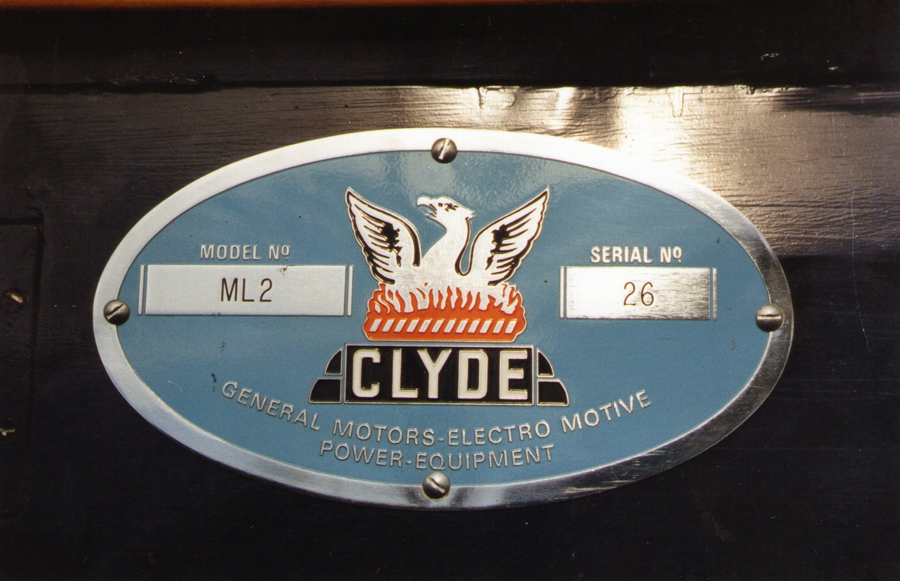 Builders plate for VR loco B85